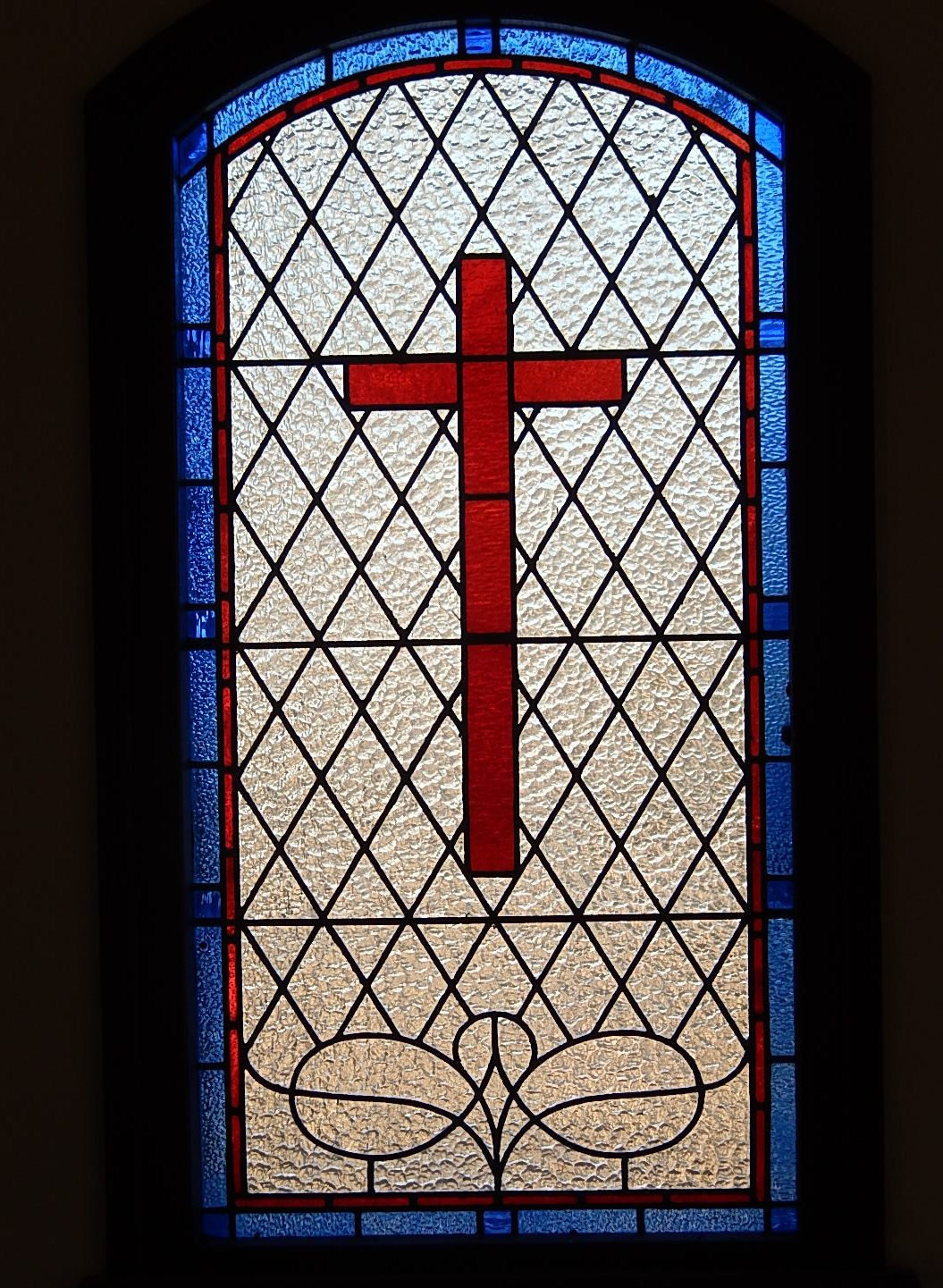 originally fitted when building constructed in 1921